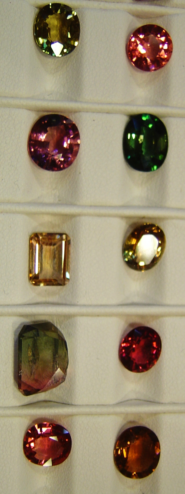 Tourmaline gemstones I took this photo in october 2005